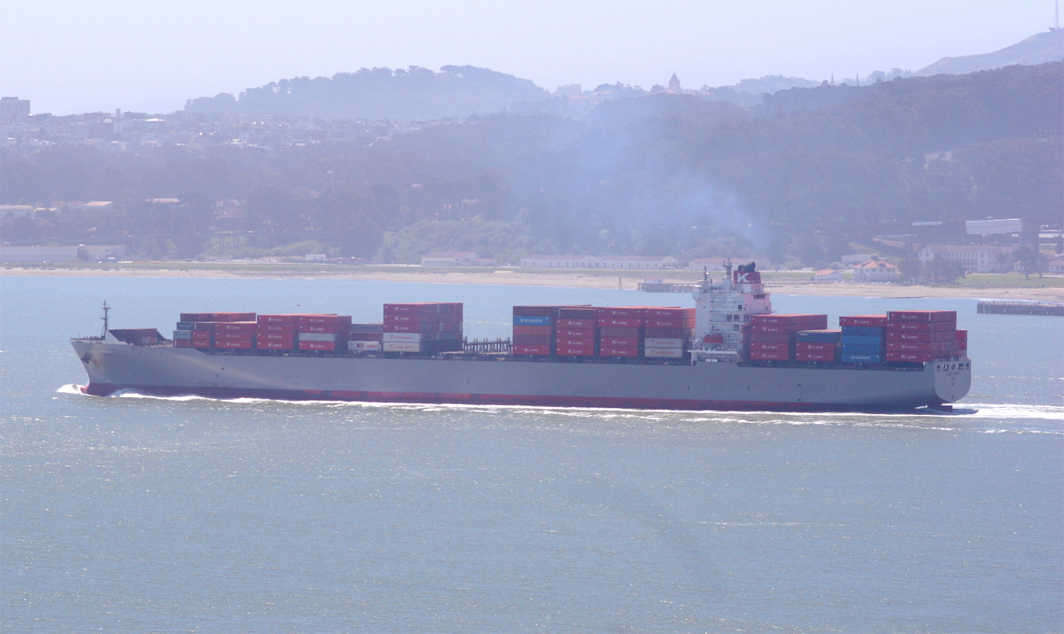 K Line containership Valencia Bridge entering San Francisco Bay in 2007 Author photo by me Debivort June 07